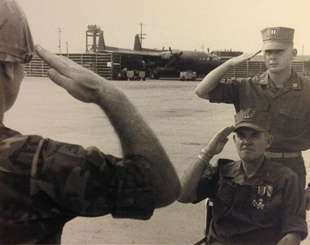 Thomas F. Howe, III and MajGen Edwin B. Wheeler CG 1st MarDiv depart for Bethesda after helicopter crash.